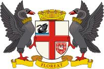 Coat of arms of the city of Perth, in Australia